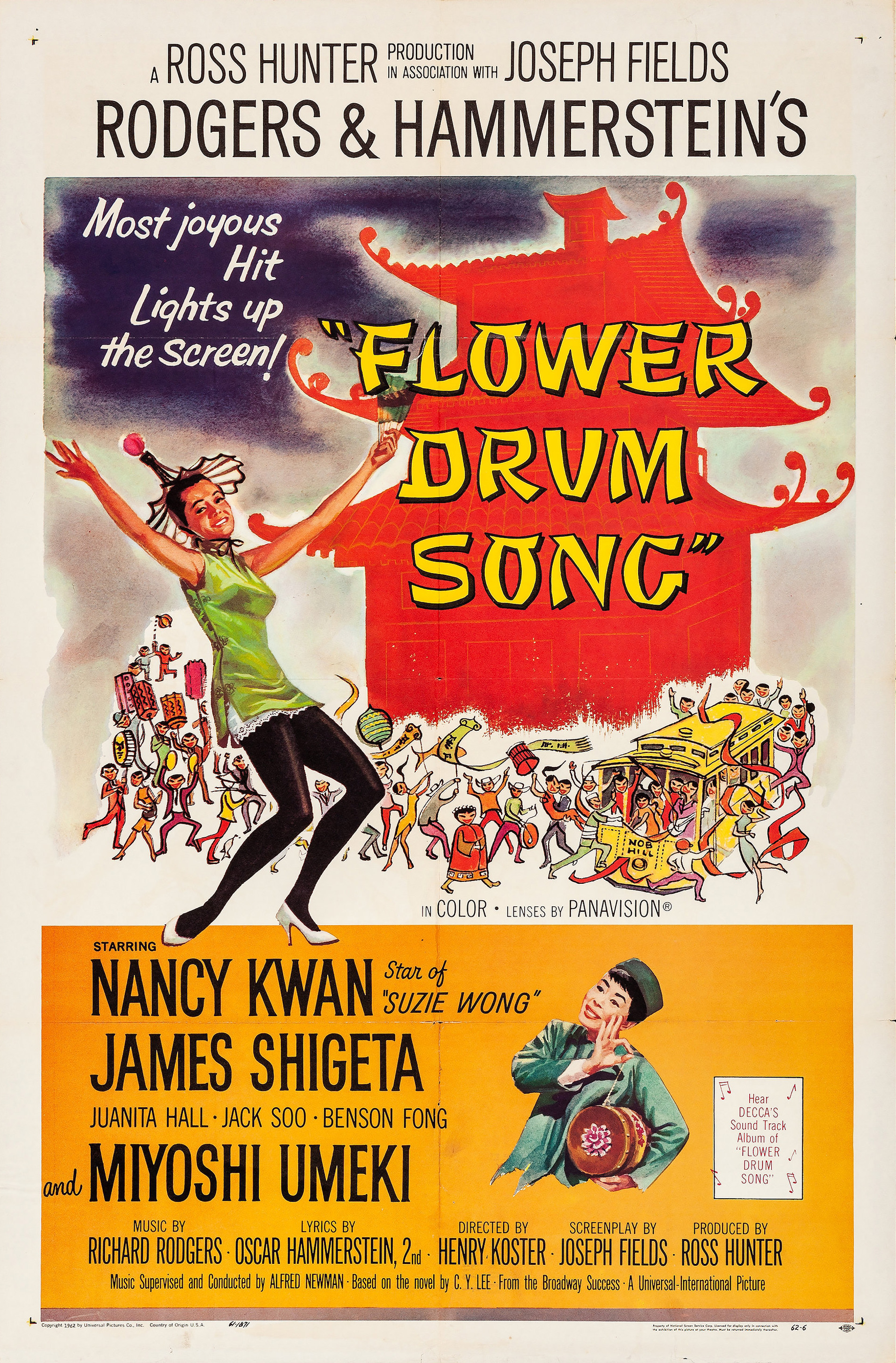 Poster for the US theatrical release of the 1961 film Flower Drum Song, an adaptation of the 1958 musical of the same name.